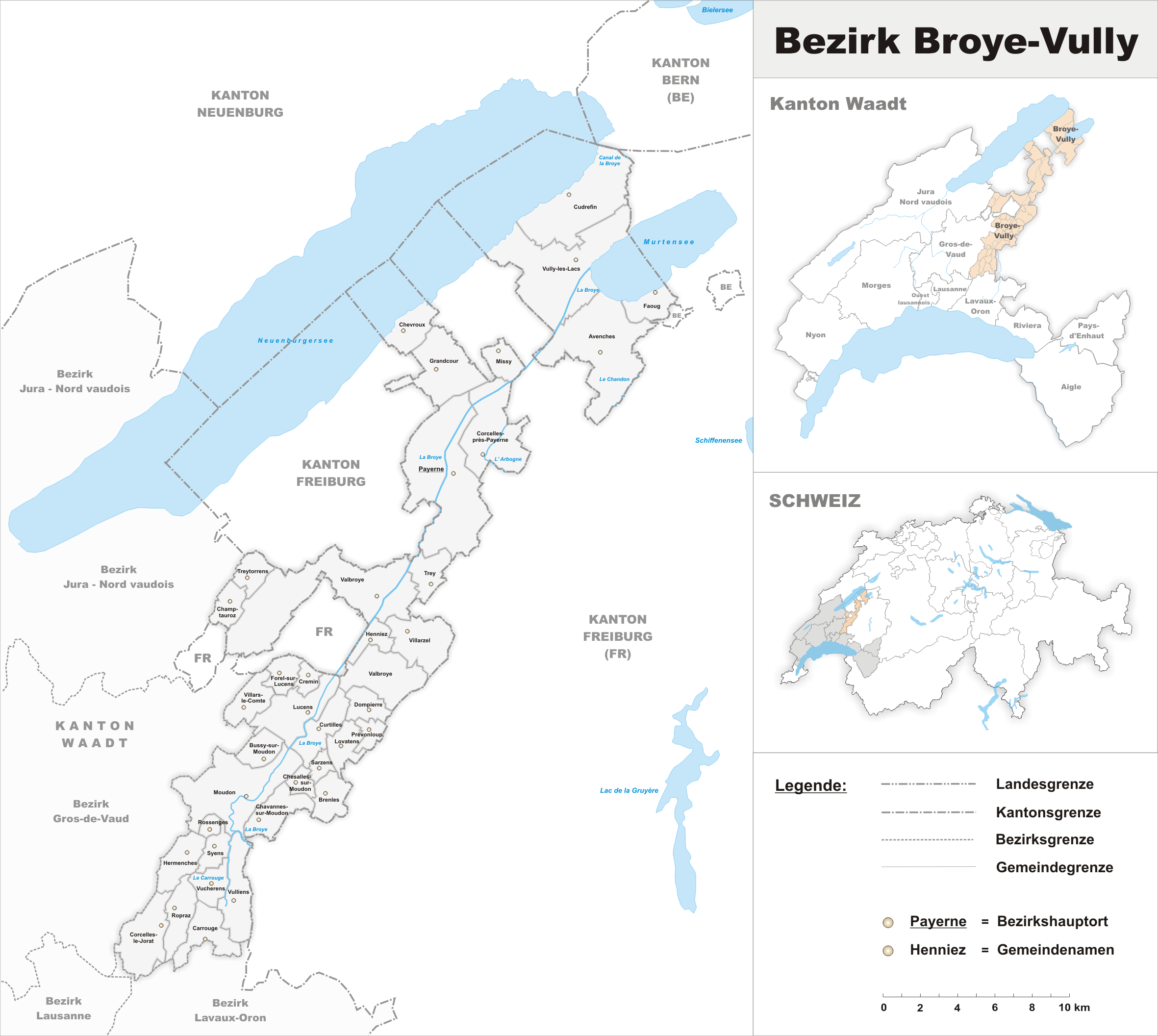 Municipalities in the district of Broye-Vully